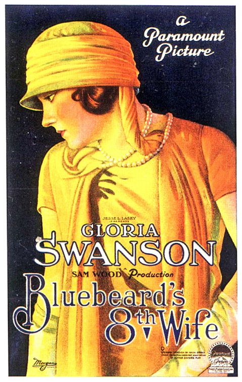 Poster from the American drama film Bluebeard's 8th Wife (1923).